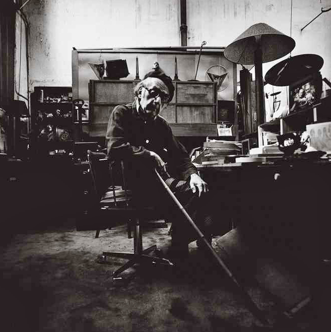 Man Ray in Paris.